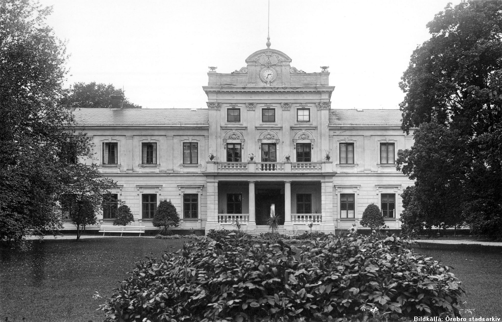 The manor Segersjö, Sweden